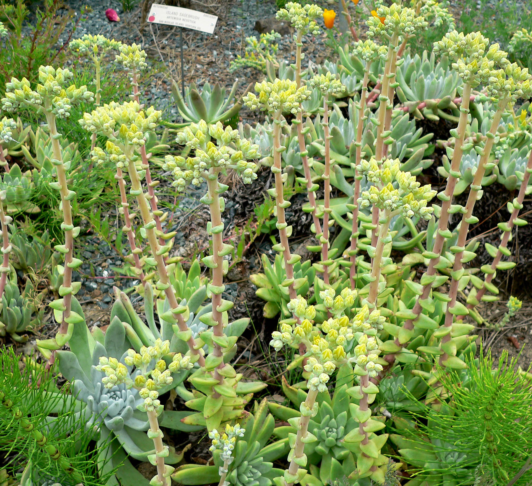 Photo of Dudleya greenei at the University of California Botanical Garden